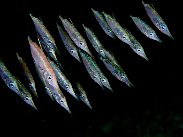 サギフエ Macroramphosus scolopax